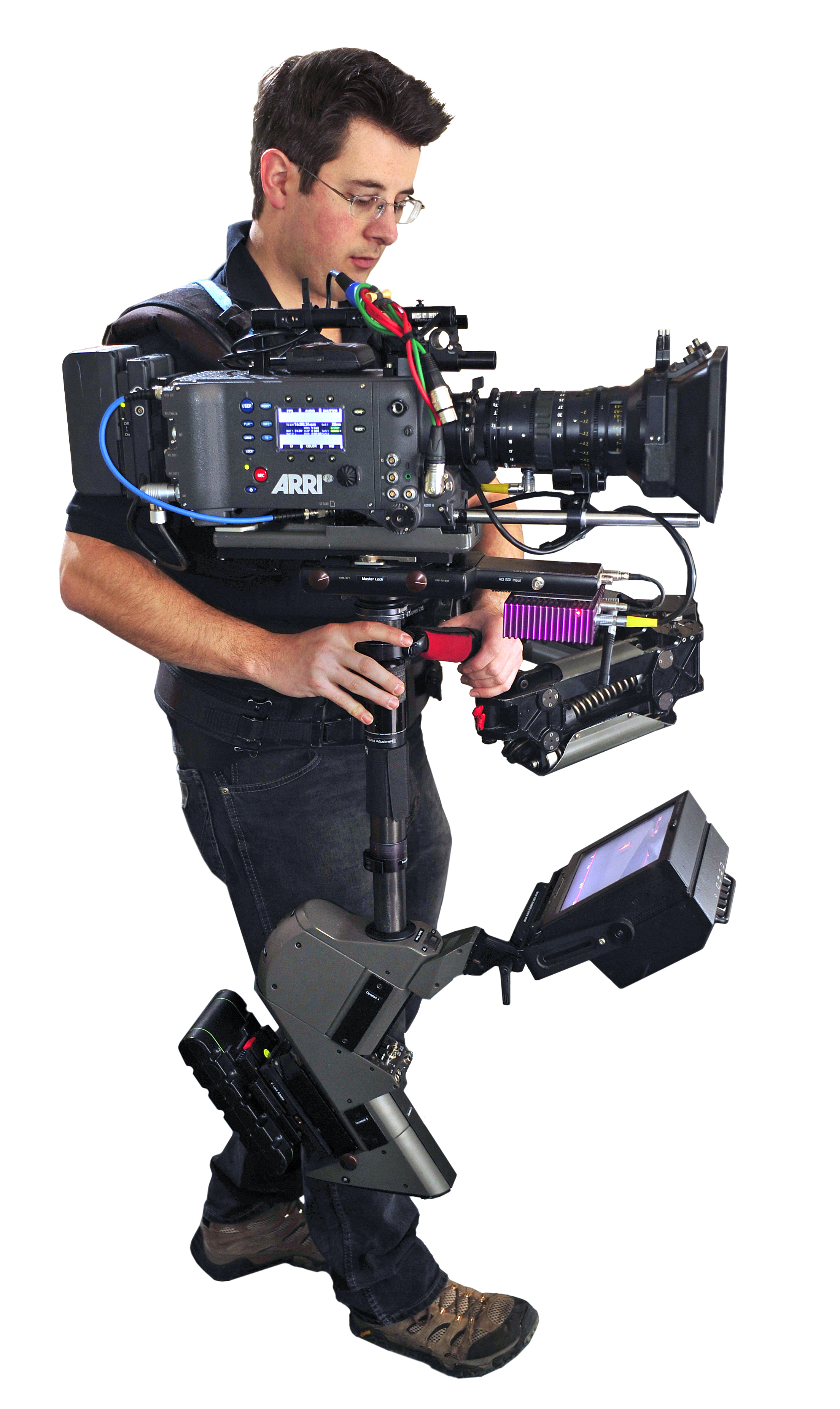 Master Steadicam flying Arri Alexa HD digital cinema camera & Angenieux PL mount zoom lens in London UK